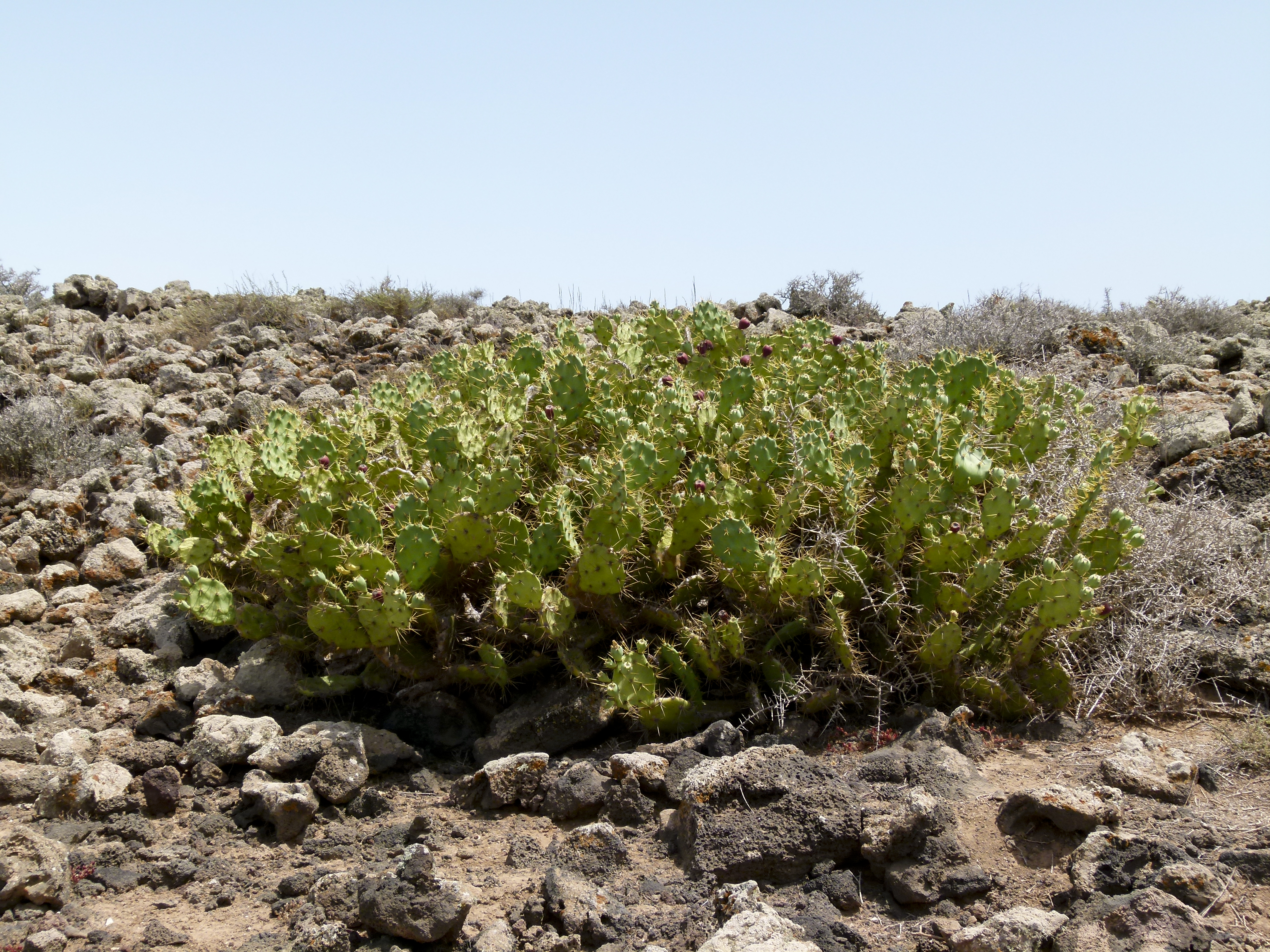 Opuntia in the Montana Colorada, La Oliva, Fuerteventura, Canary Islands, Spain